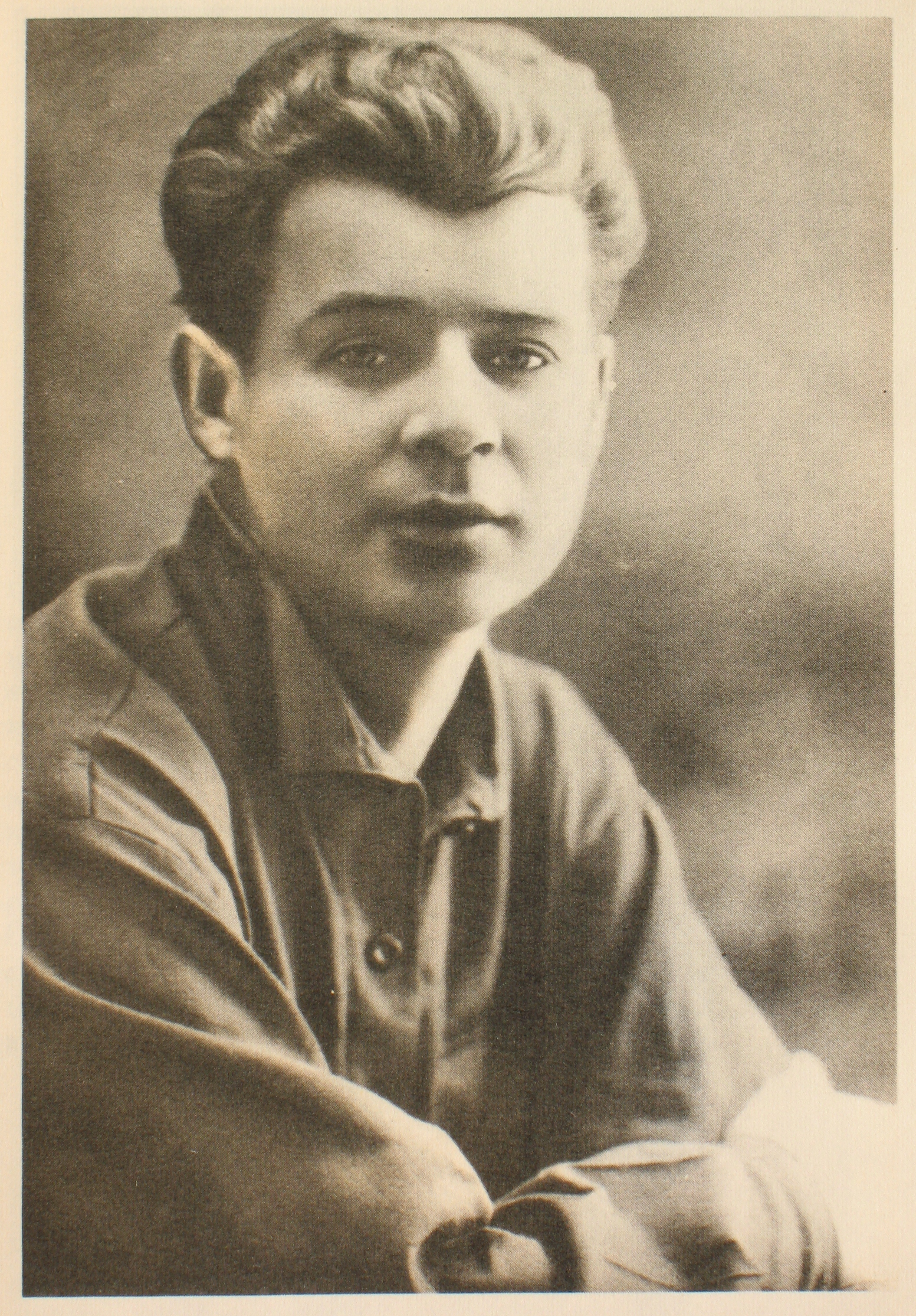 Russian poet Sergei Esenin in 1924 (dead in 1925). Autor photo 1924 unknown - on USSR paper non-post card, on books reproductions.